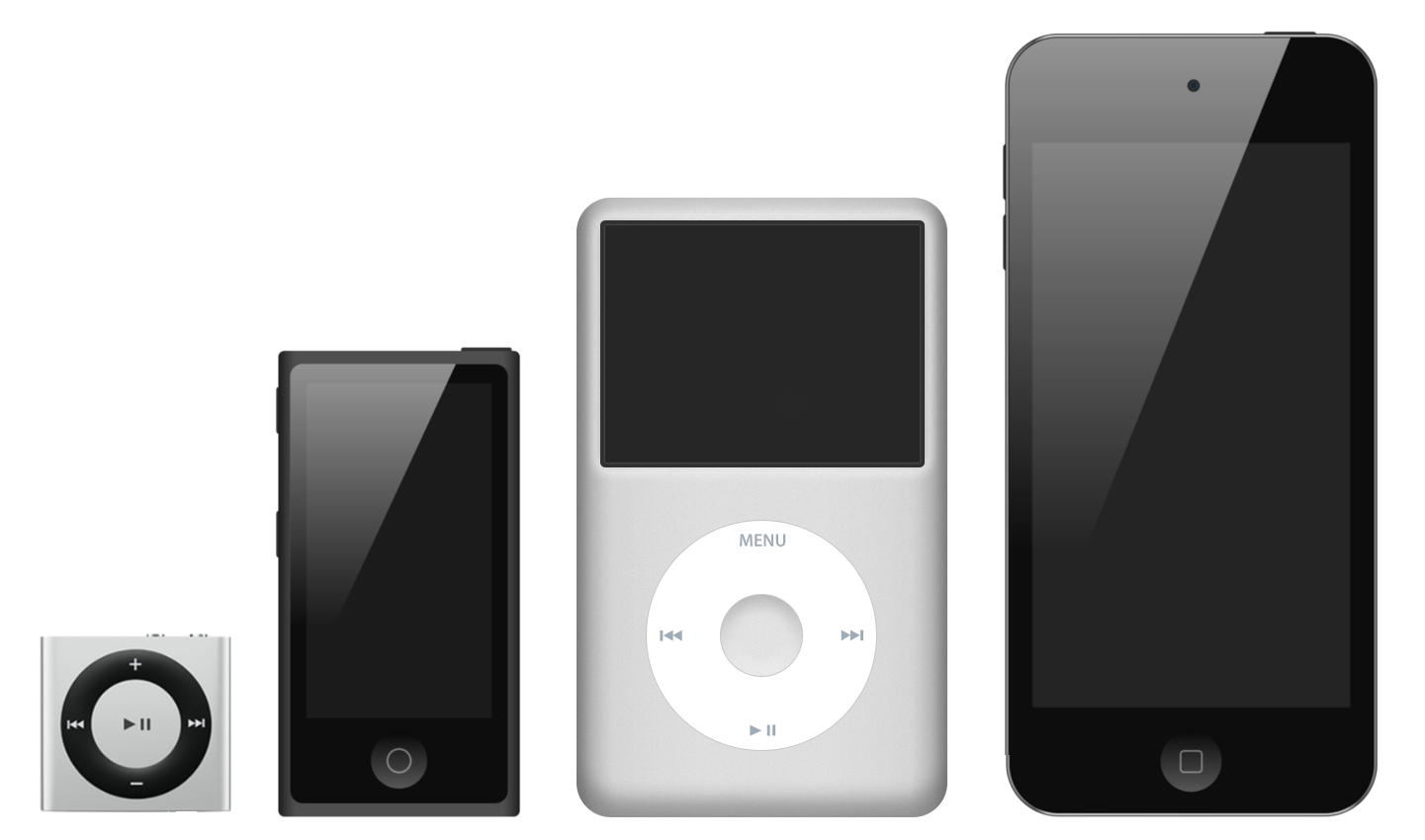 The iPod family with, from the left to the right: the shuffle 4G, the nano 7G, the classic 6G and the touch 5G.